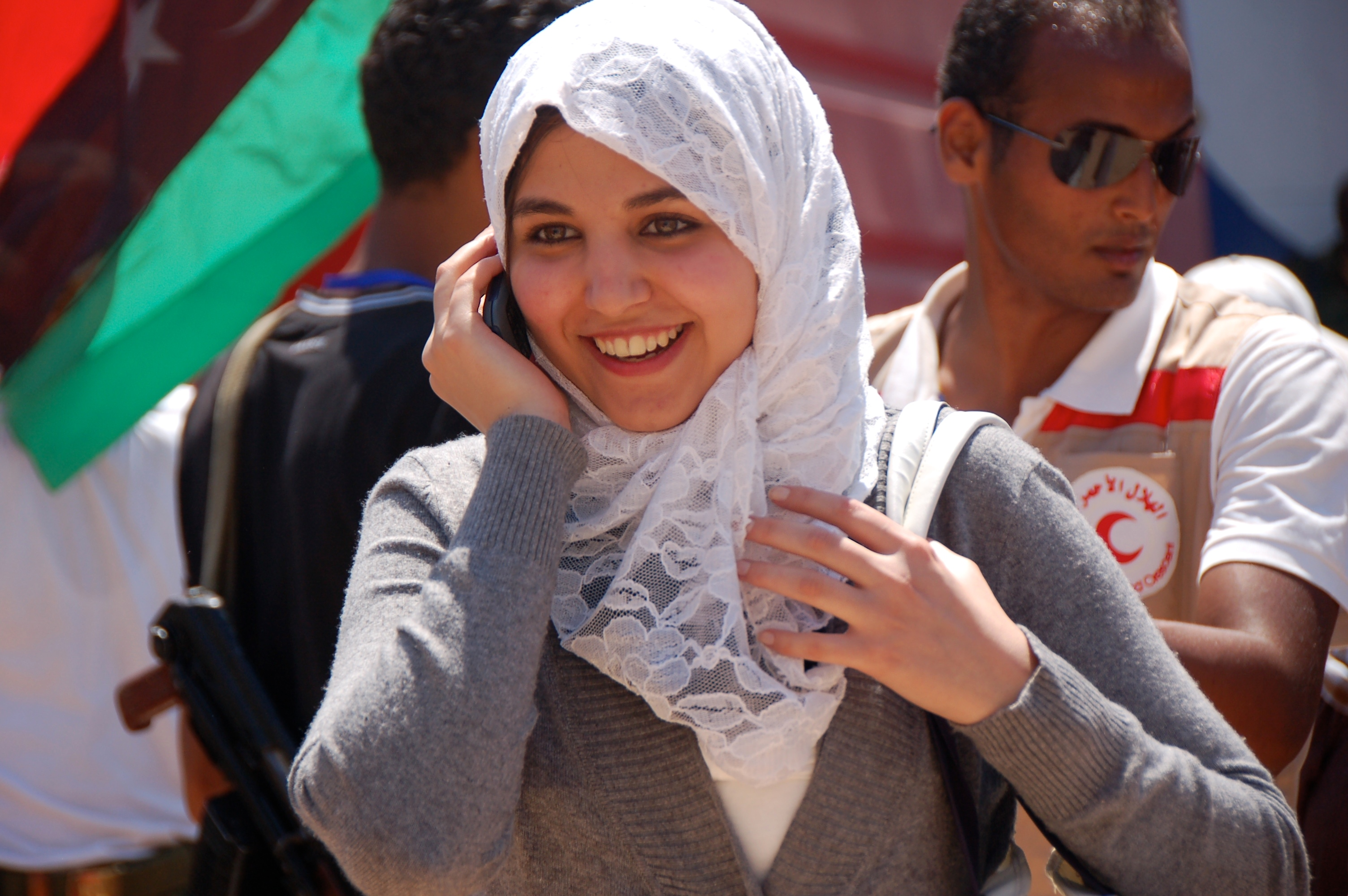 Trying to locate people, and put them back into contact with their relatives, is a major challenge for the ICRC. The work includes tracing people, exchanging family messages, reuniting families and seeking to clarify the fate of those who remain missing.